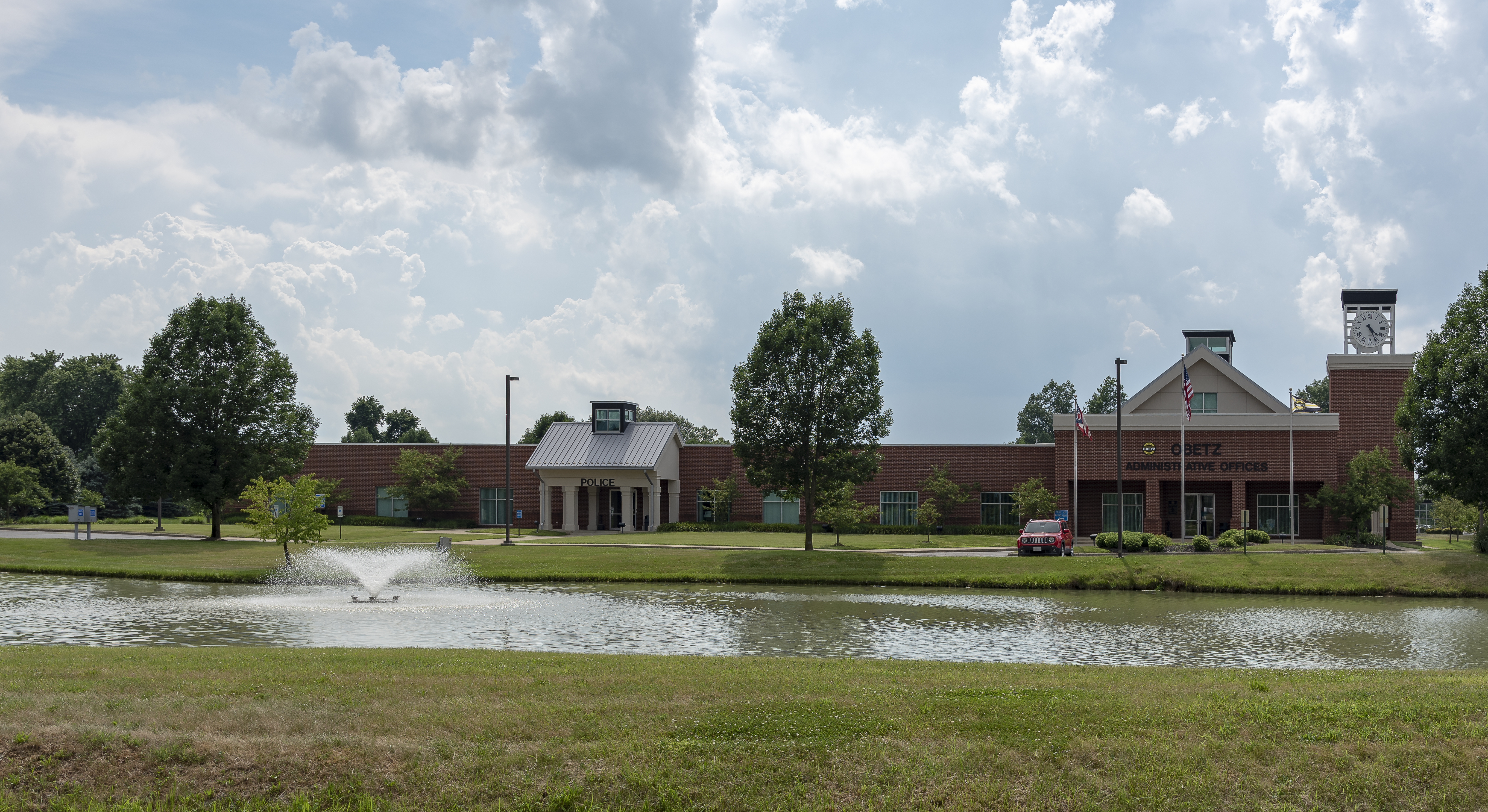 The Obetz Administrative Offices houses both the Administrative Offices (Mayors office) and the Police Station. Taken in early July. License plate of unknown individual intentionally blurred to protect their privacy.